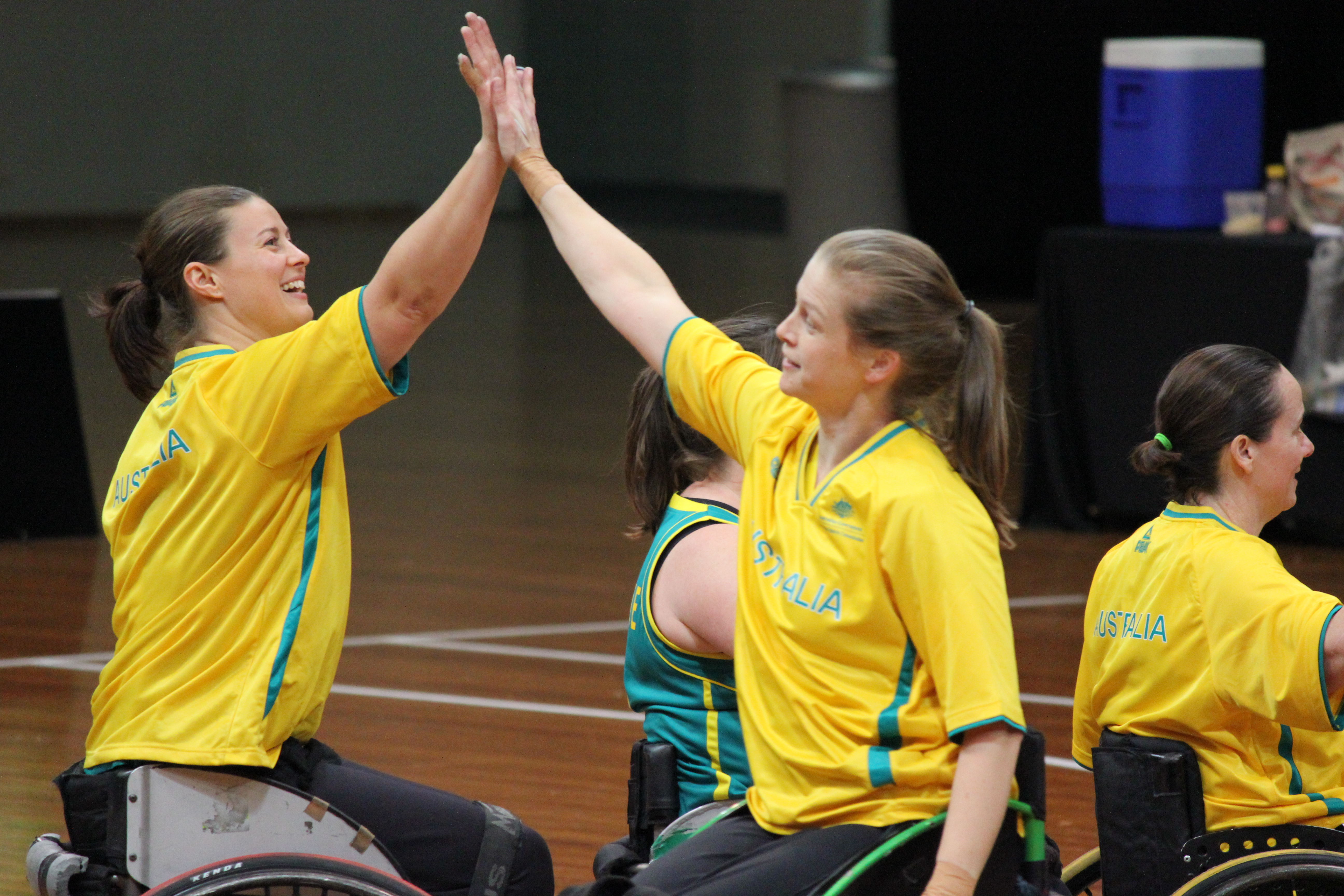 Aussie Gilder player in July 2012 in Sydney.